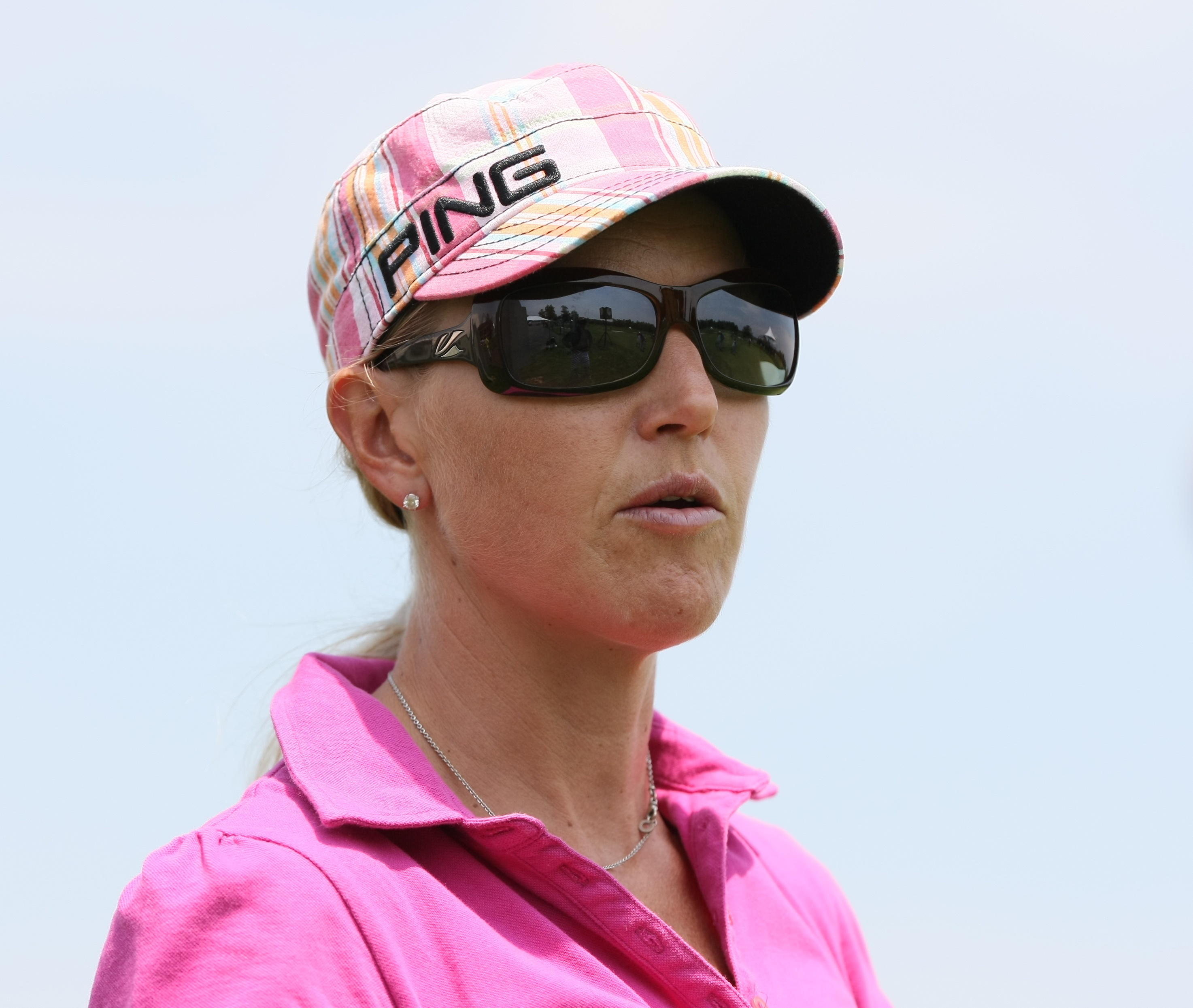 HAVRE DE GRACE, MD - JUNE 09: Carin Koch (SWE) during Pro-Am before 2009 LPGA Championship held at Bulle Rock Golf Course, on June 9, 2009 in Havre de Grace, Maryland. (Photo by Keith Allison)